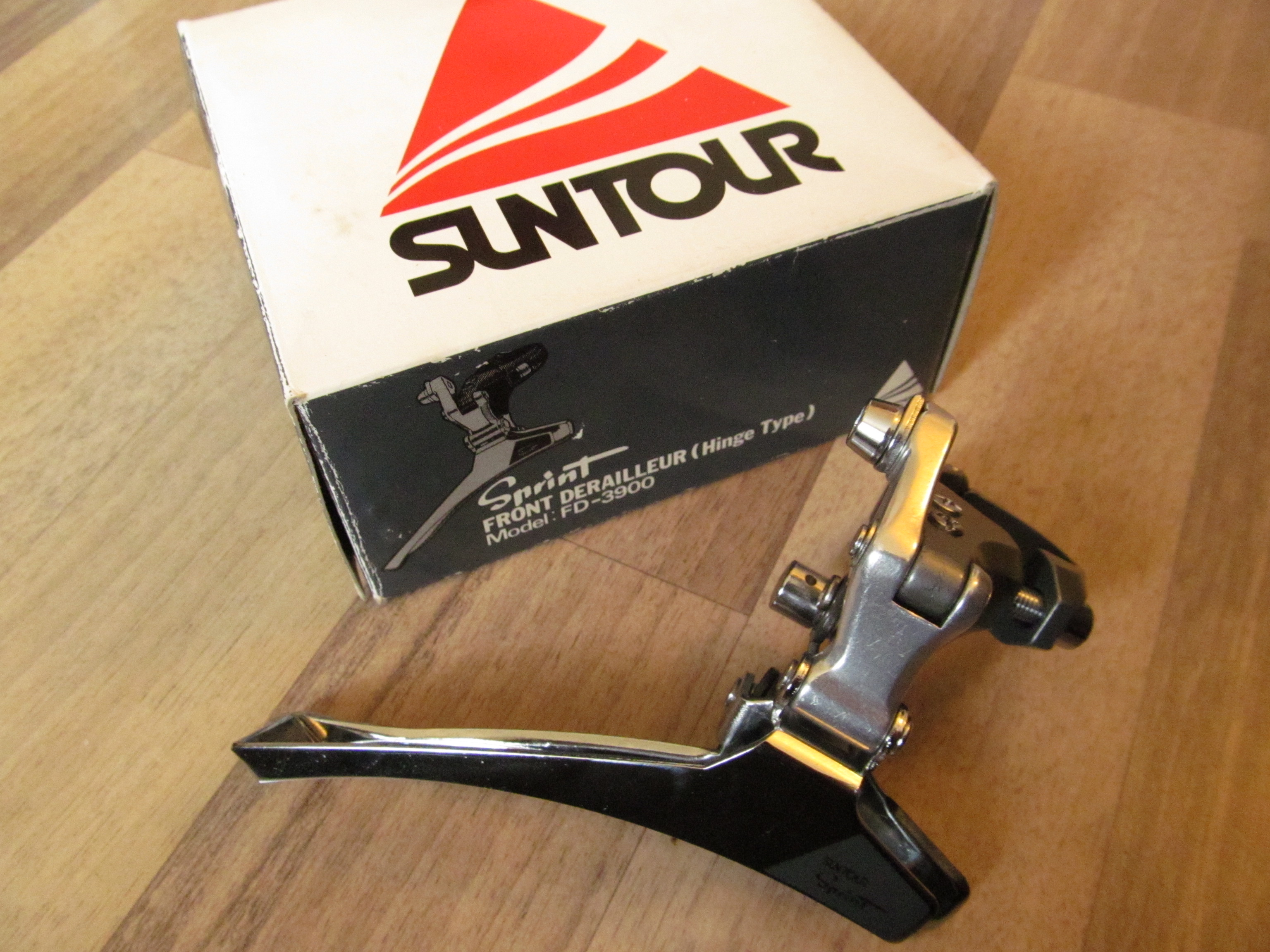 A bicycle front derailleur (FD-3900), manufactured by Suntour, branded as part of the Sprint gruppo. The photographer tags the original image as 1986 or 1987.